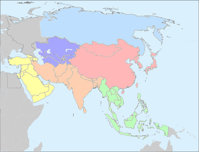 Recoloured map of Asia originally uploaded by User:historicair with the United Nations subregions.